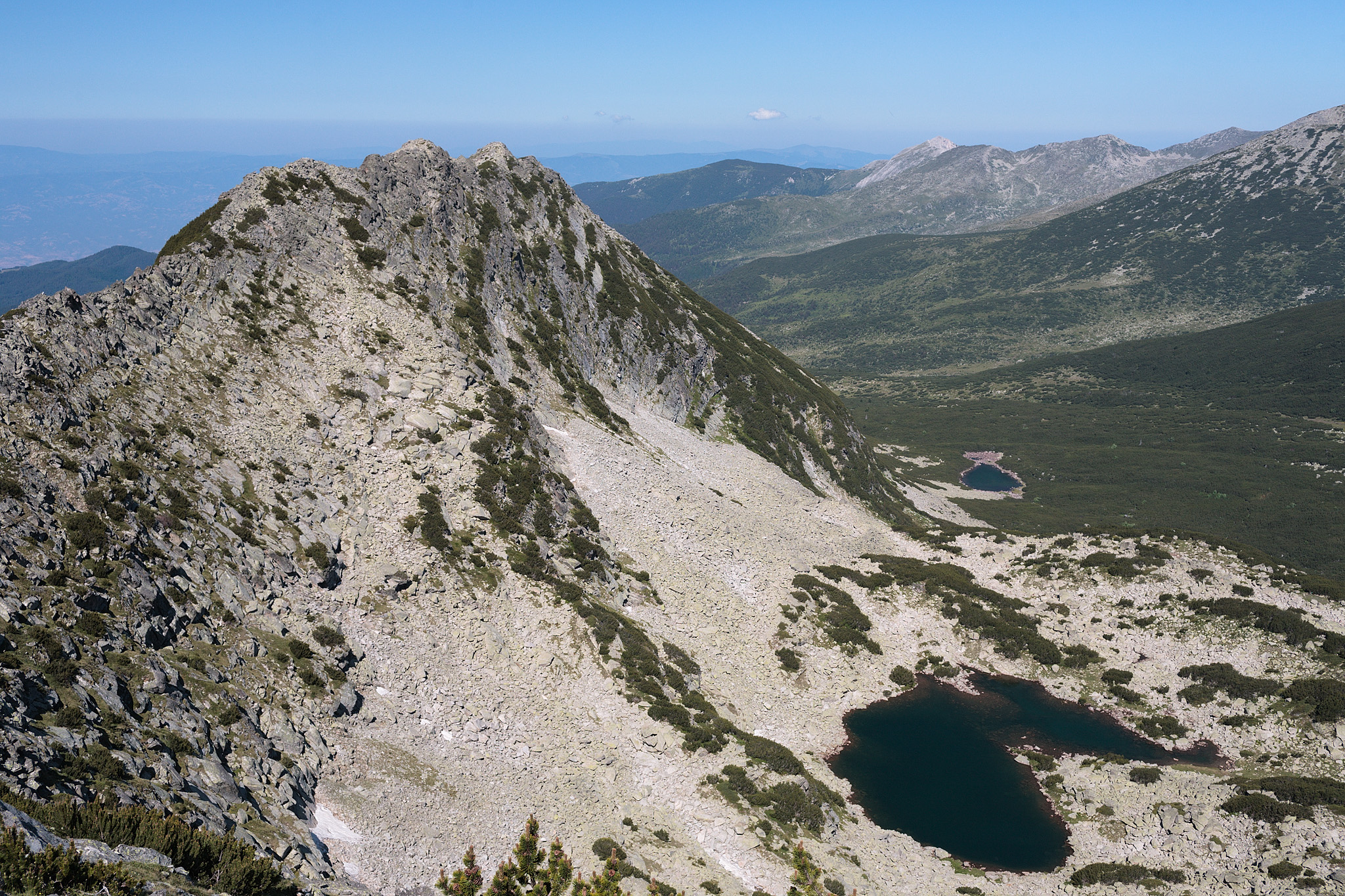 Mozgovishki Chukar peak in Pirin mountains, Bulgaria